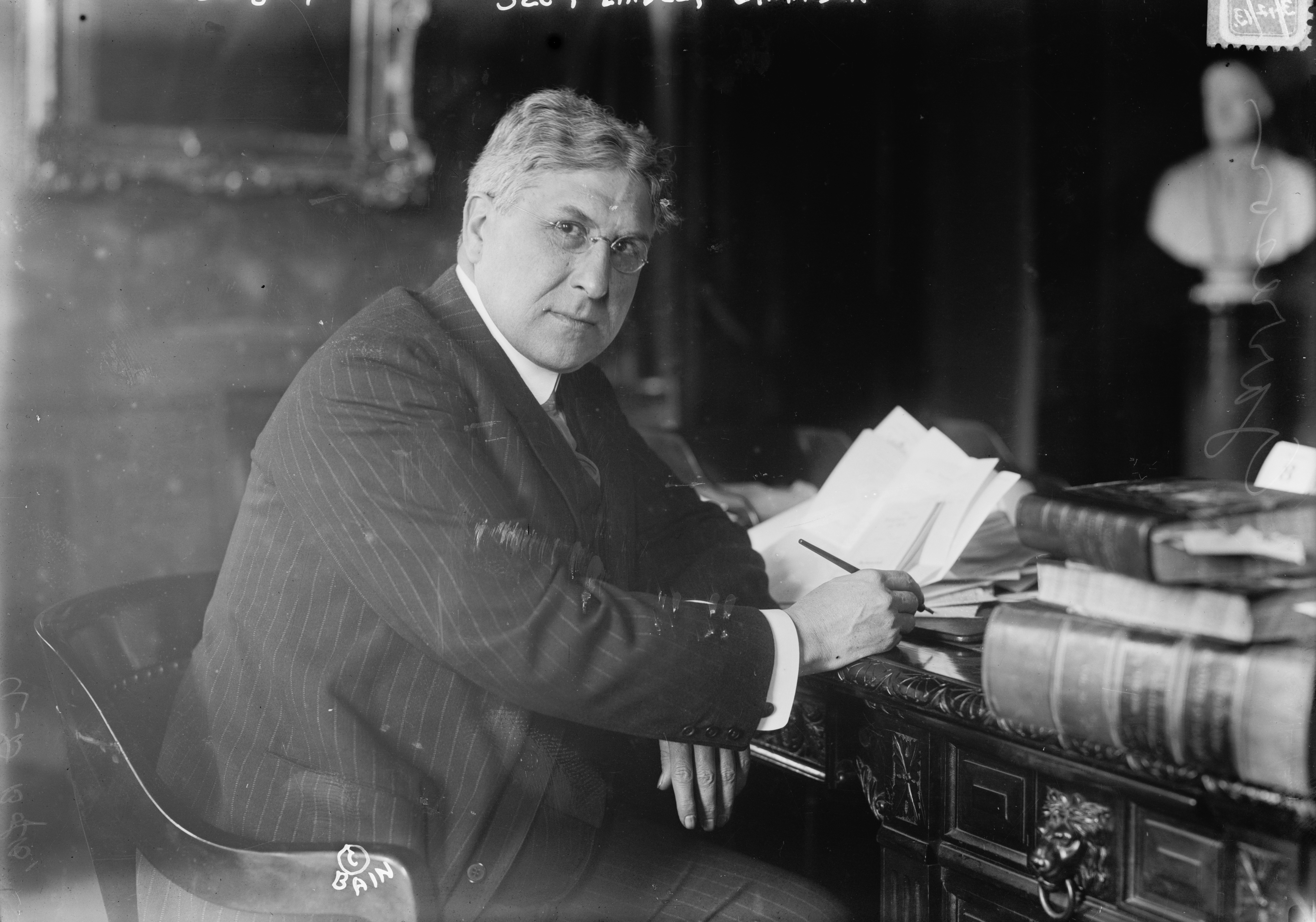 Secy Lindley Garrison